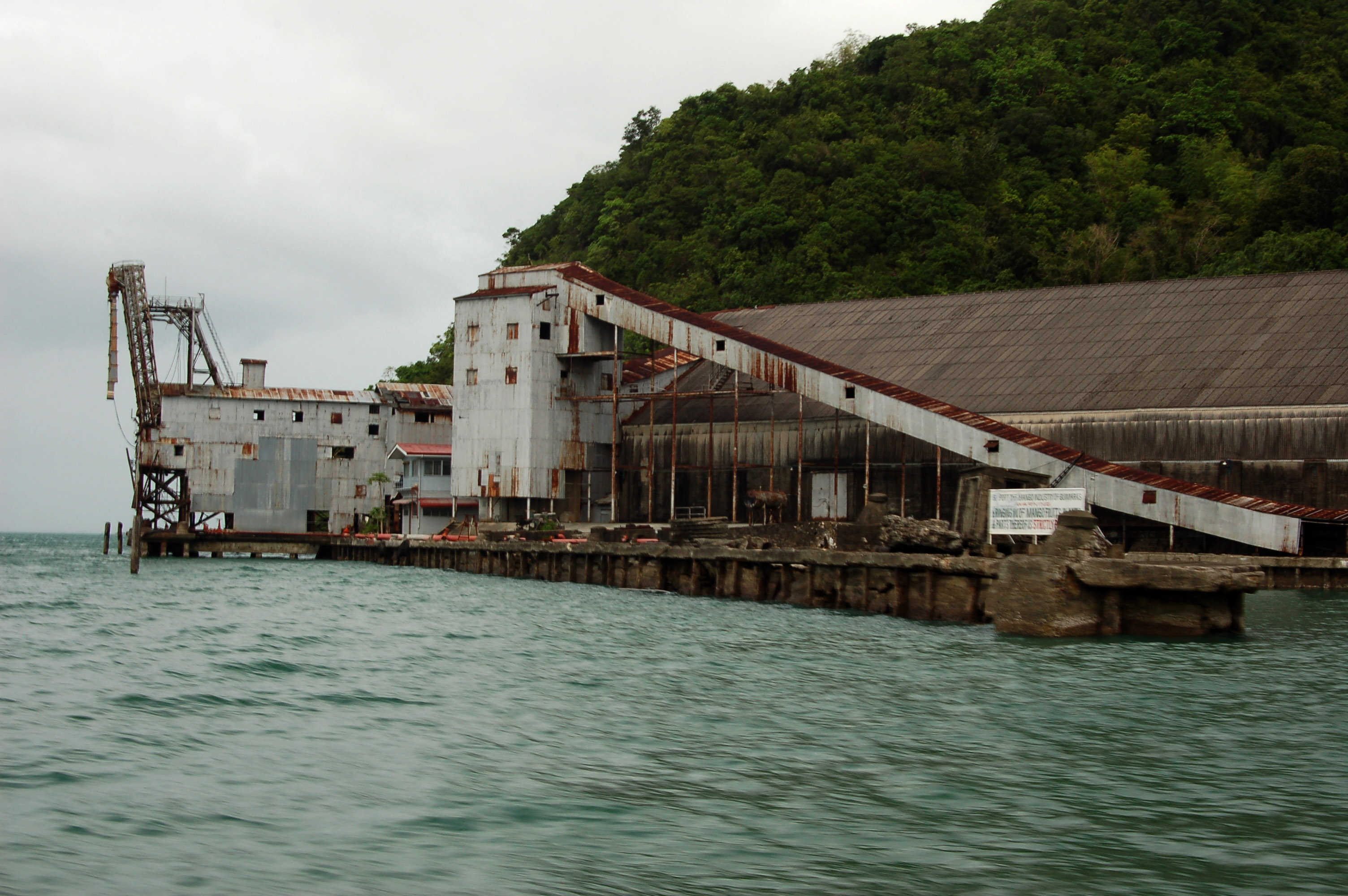 The small island of Guimaras has now largely abandoned sugarcane plantations in favor of more lucrative mango orchards. Jordan, Guimaras, Philippines